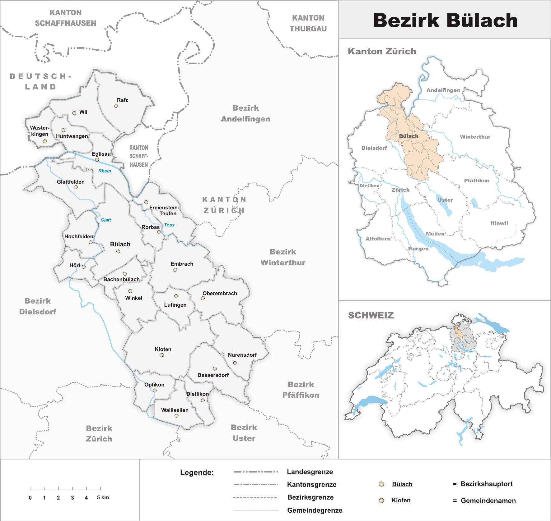 Municipalities in the district of Bülach